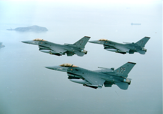 Three 51st FW F-16s in flight.